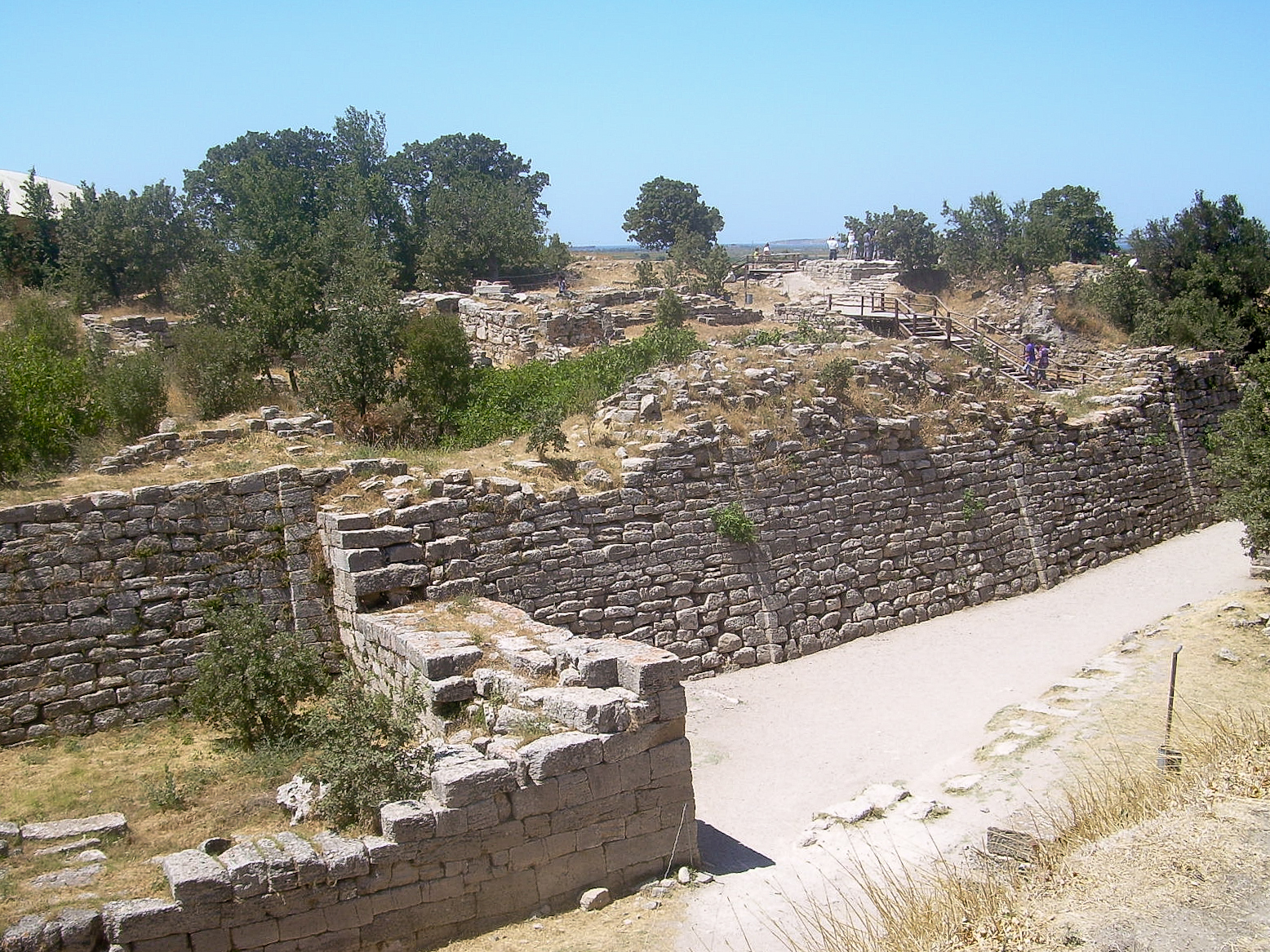 Walls of Troy, Hisarlik, Turkey